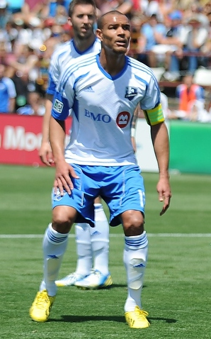 Matteo Ferrari and the Montreal Impact visits the San Jose Earthaquakes on 4 May 2013.